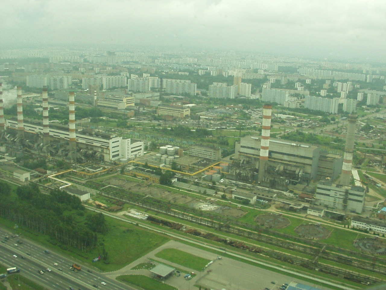 Power plant 21 (foreground) and Power plant 28 in Korovino, Moscow, Russia